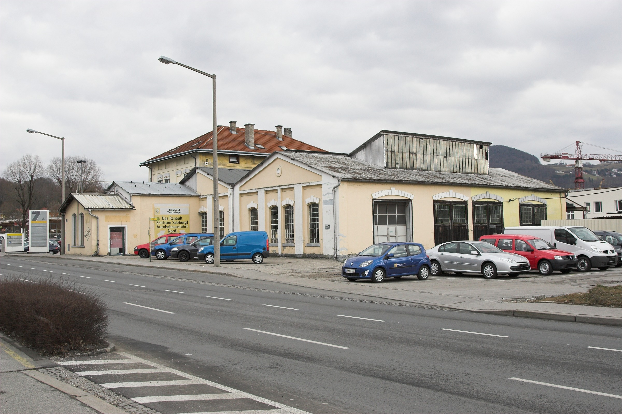 Building of the SKGLB railway's workshop in Salzburg Itzling. Later it has been used as a car repair workshop, and was finally removed in 2014.